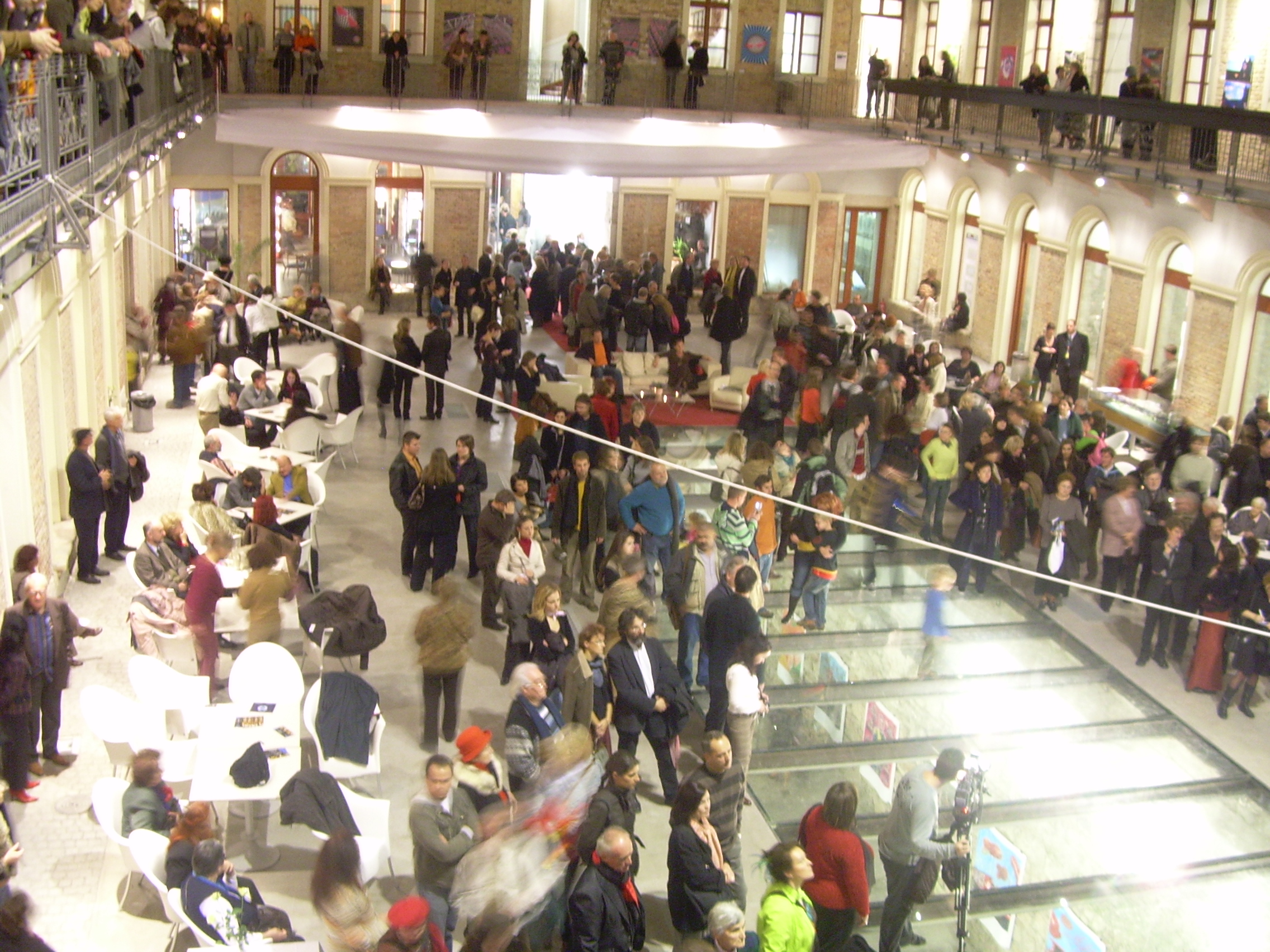 WAM opening celebration. - Király utca 26. (based wikipedia)